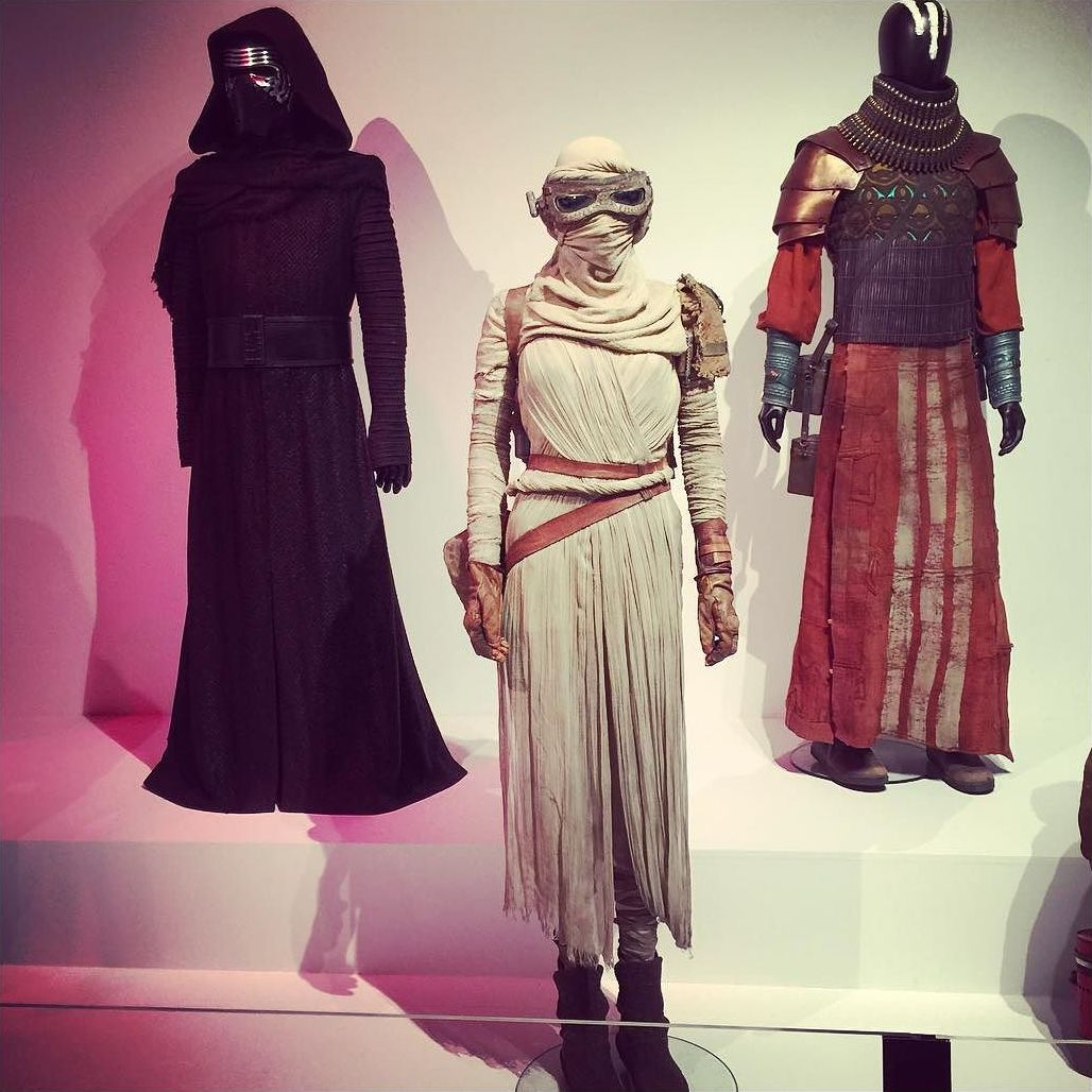 Costumes from the film Star Wars: The Force Awakens displayed at the exhibition 24th Annual Art of Motion Picture Costume Design at FIDM Museum, Los Angeles, CA.